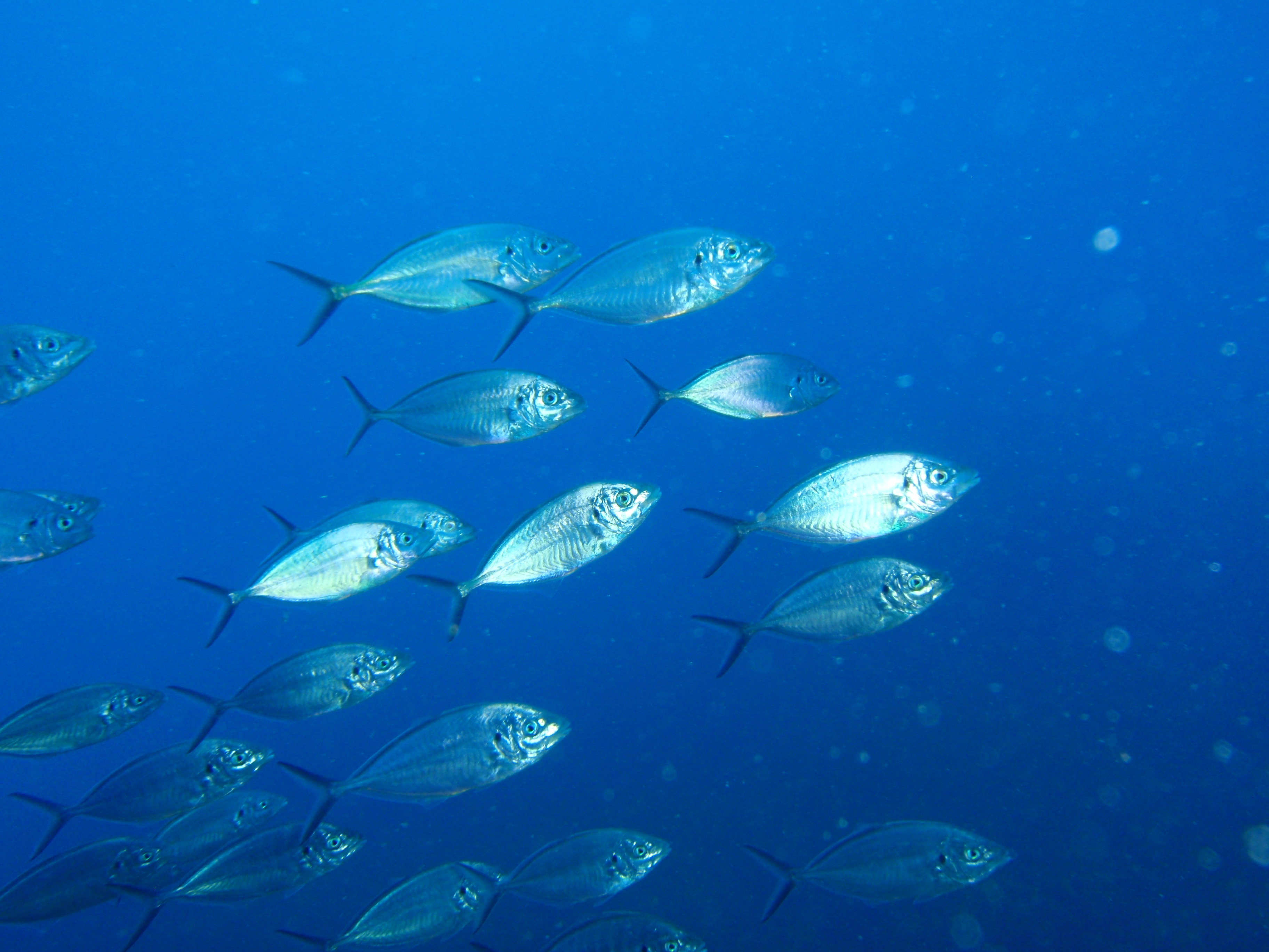 Silver trevally Pseudocaranx georgianus at Michaelmas Reef in King George Sound, South Australia.